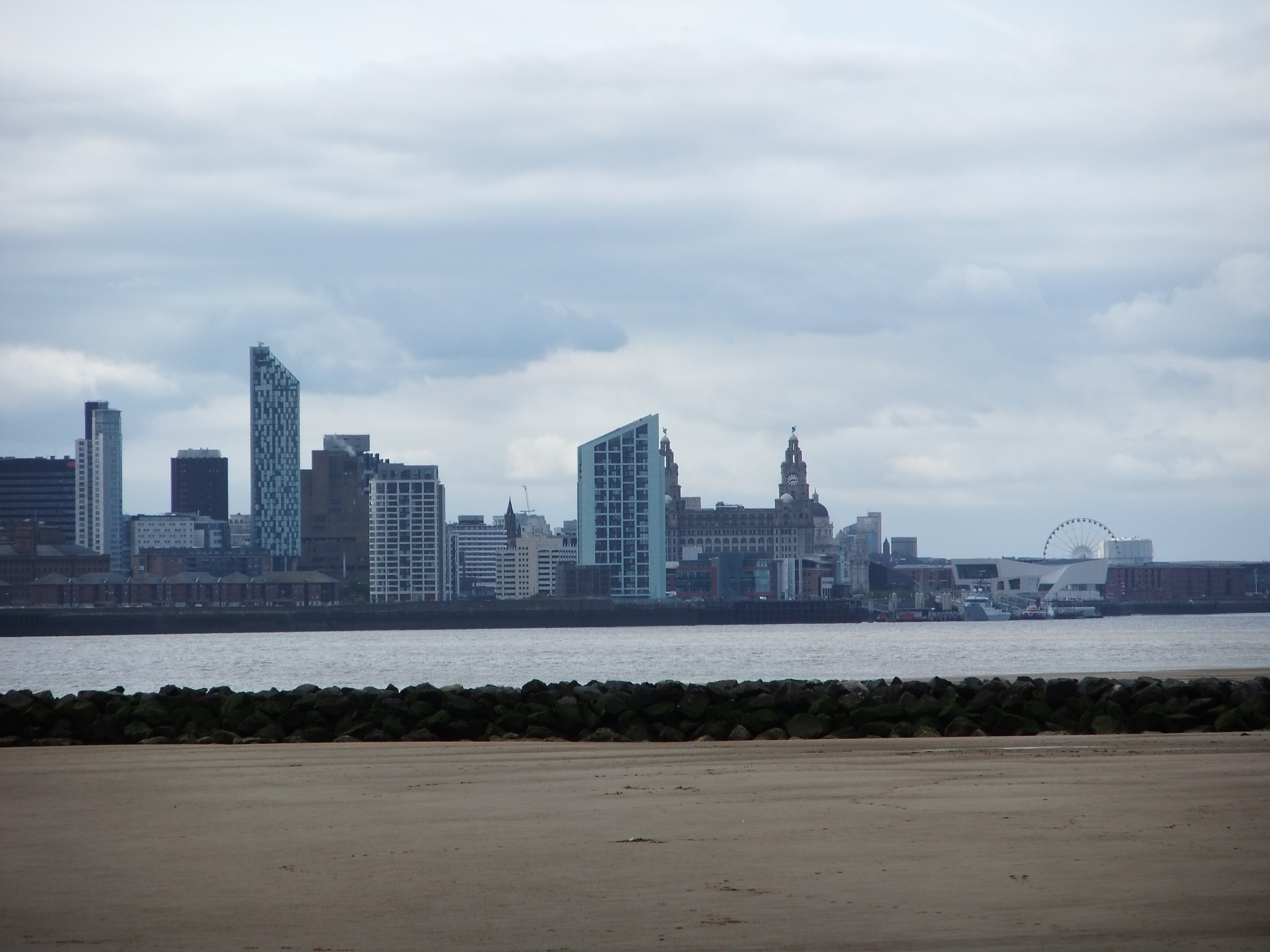 Liverpool skyline from New Brighton, Wirral, England.